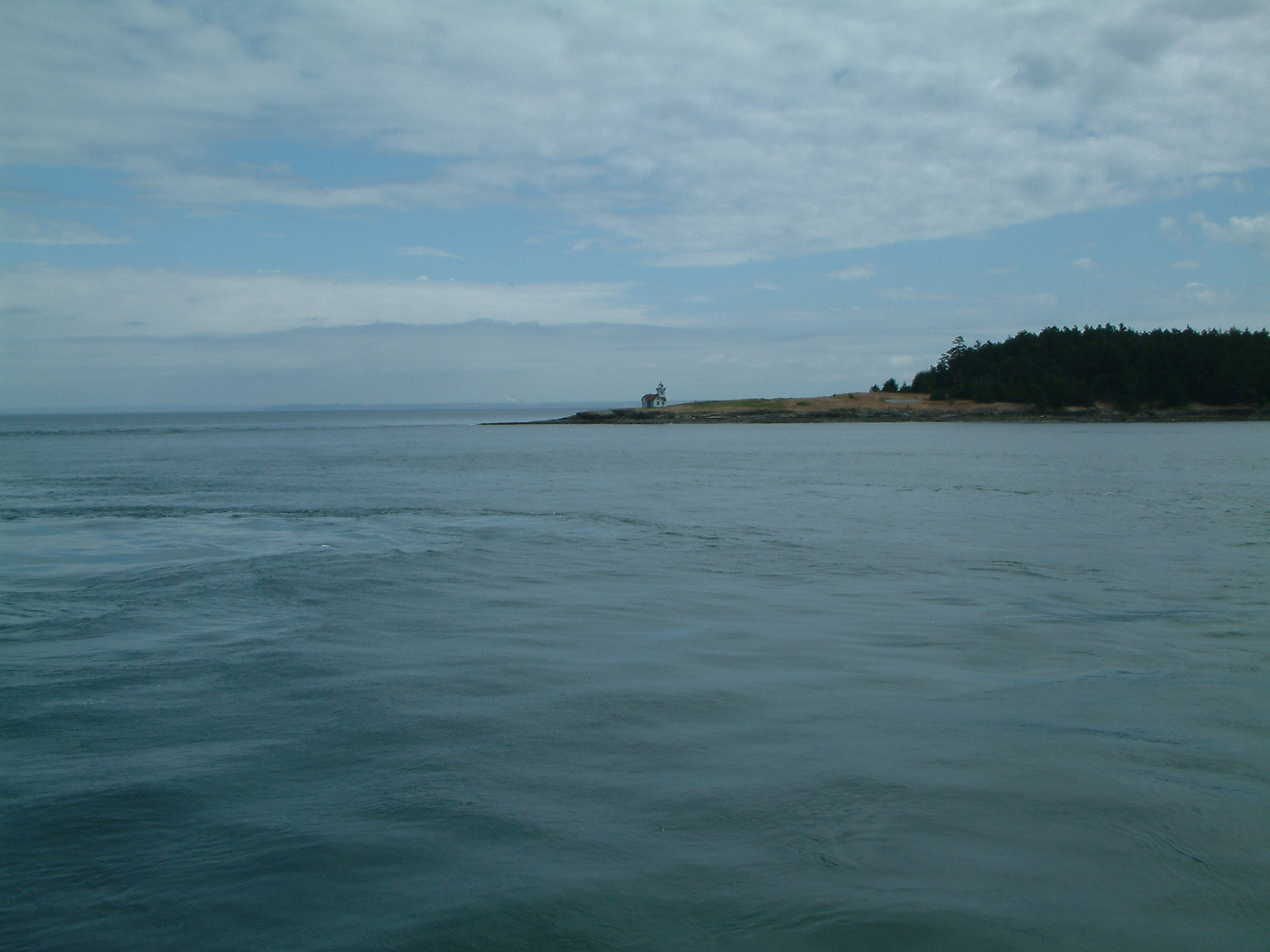 Western tip of Patos Island, Washington, USA with Patos Island Light